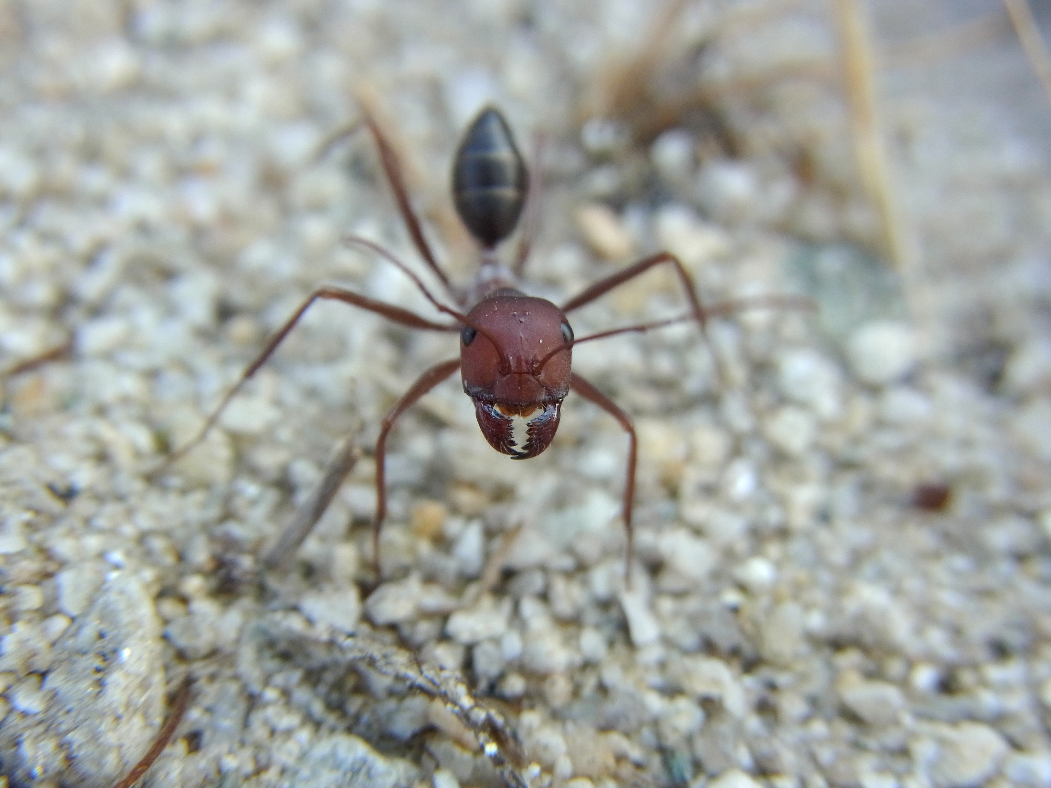 Cataglyphis nodus, Skala Prinos, Thasos / Greece